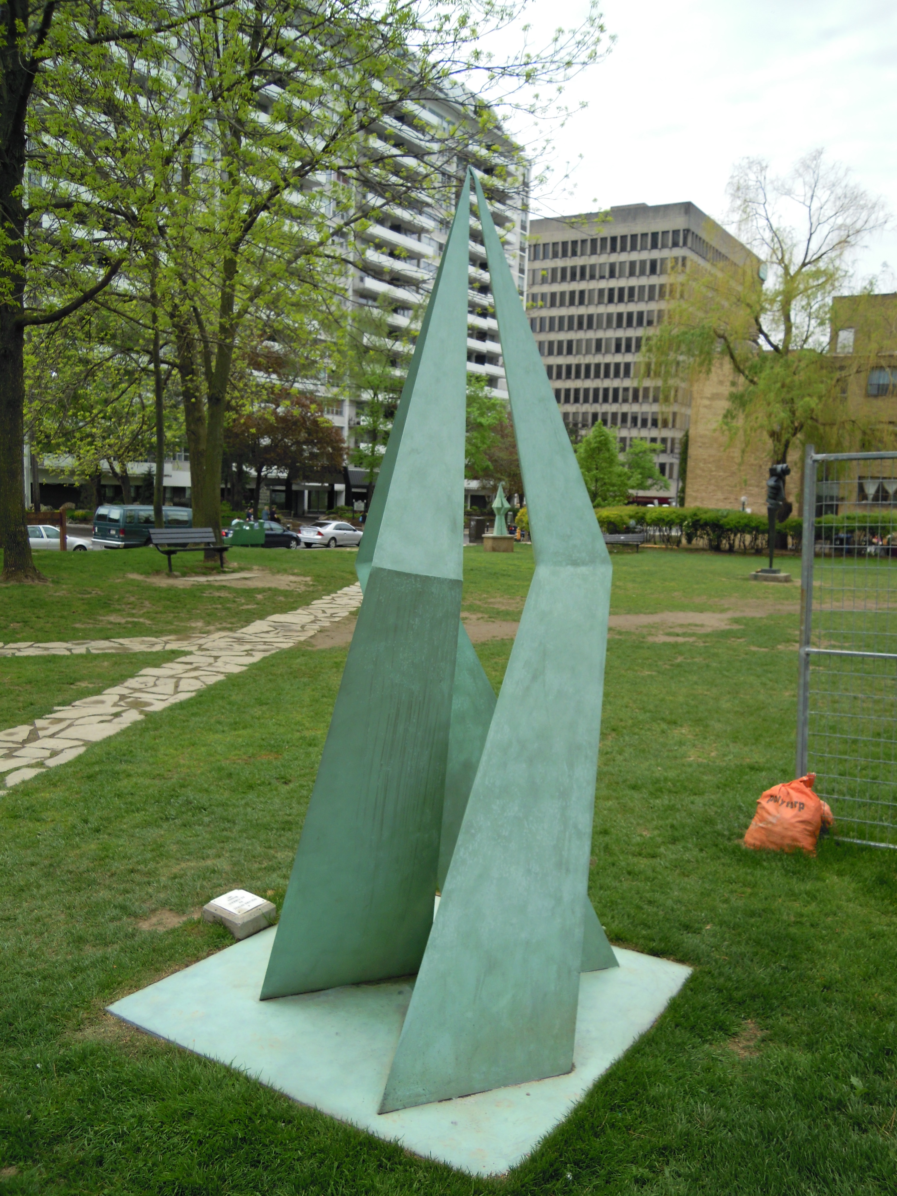 "Square Spiral" (1997) by Al Green, located in the Al Green Sculpture Park in Toronto, Ontario, Canada.